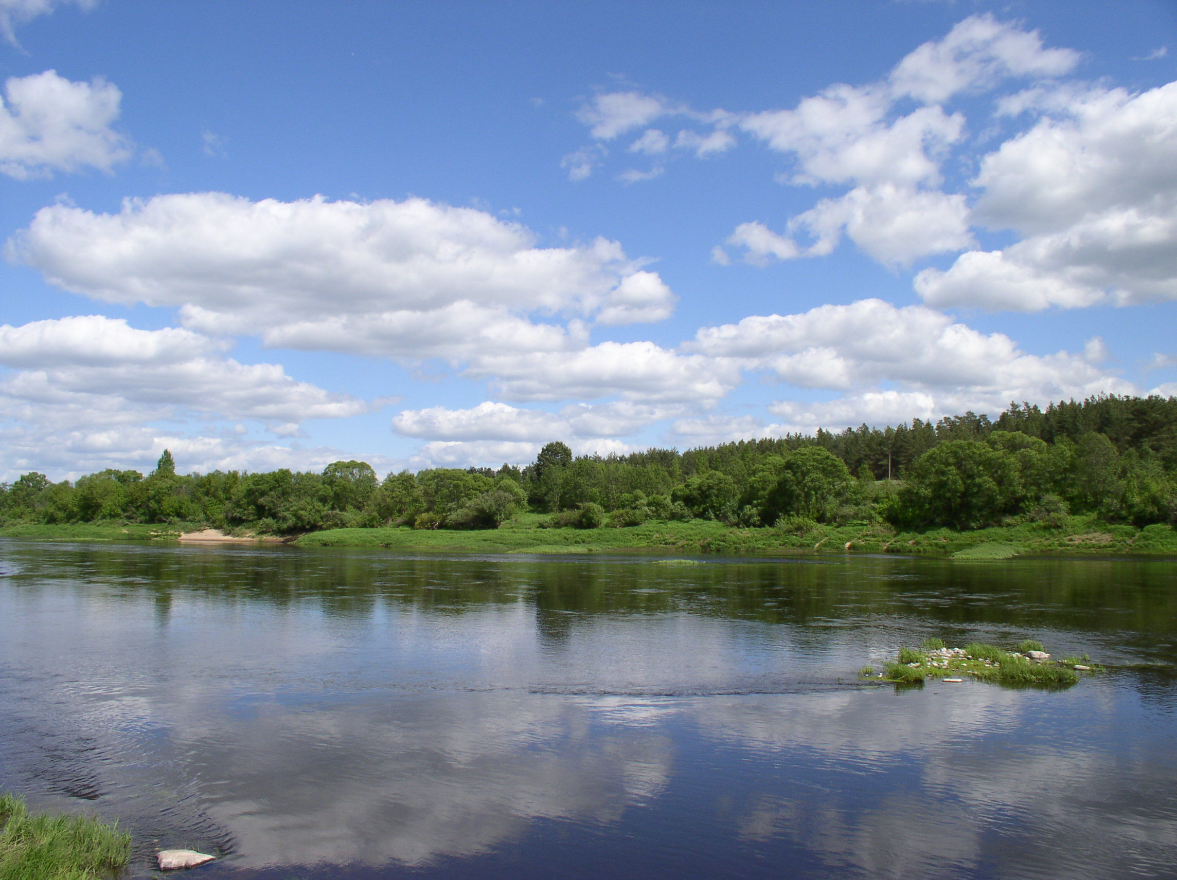 Dzvina river, Belarus.